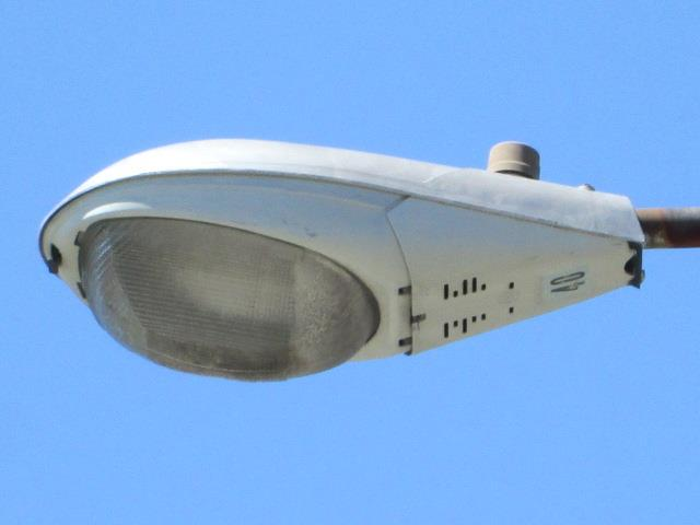 History of street lighting : General Electric M400A (1967–1985) Power door (150–400 watts)